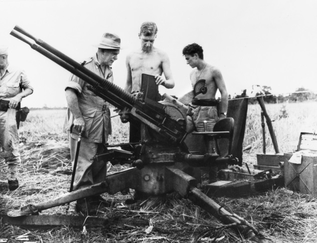 1943-01-14. GENERAL SIR THOMAS BLAMEY AND LIEUT. GENERAL EICHELBERGER INSPECTING A JAPANESE POM POM CAPTURED ON THE BUNA STRIP. THIS GUN WAS CAPTURED INTACT AND WAS BEING FIRED AT IT'S FORMER OWNERS WHEN THE TWO GENERALS ARRIVED. (NEGATIVE BY BOTTOMLEY).